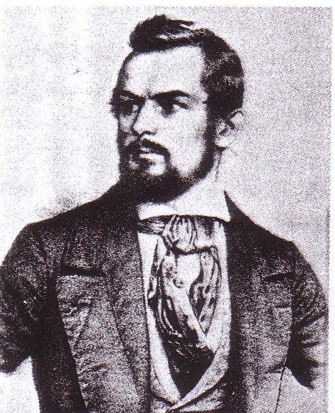 Lithographie von Wilhelm Jordan als Student in Königsberg. Portrait von Carl Friedrich Wilhelm Jordan (Schriftsteller und Politiker)